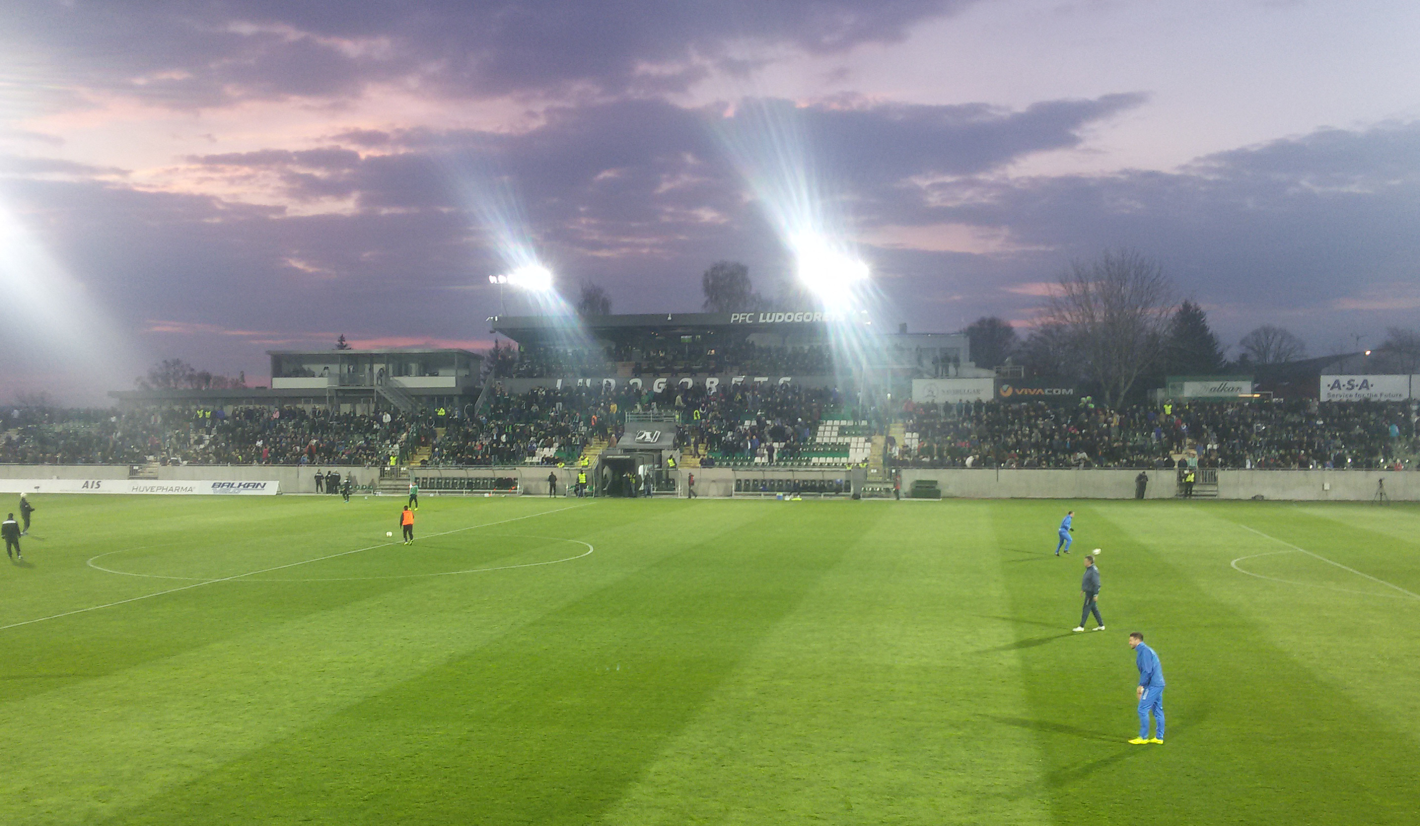 Ludogorets Arena in Razgrad, Bulgaria.